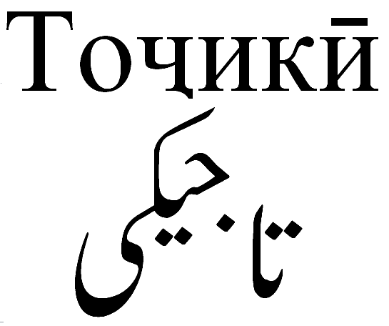 Tajiki in Cyrillic and Persian Nast'liq scripts.